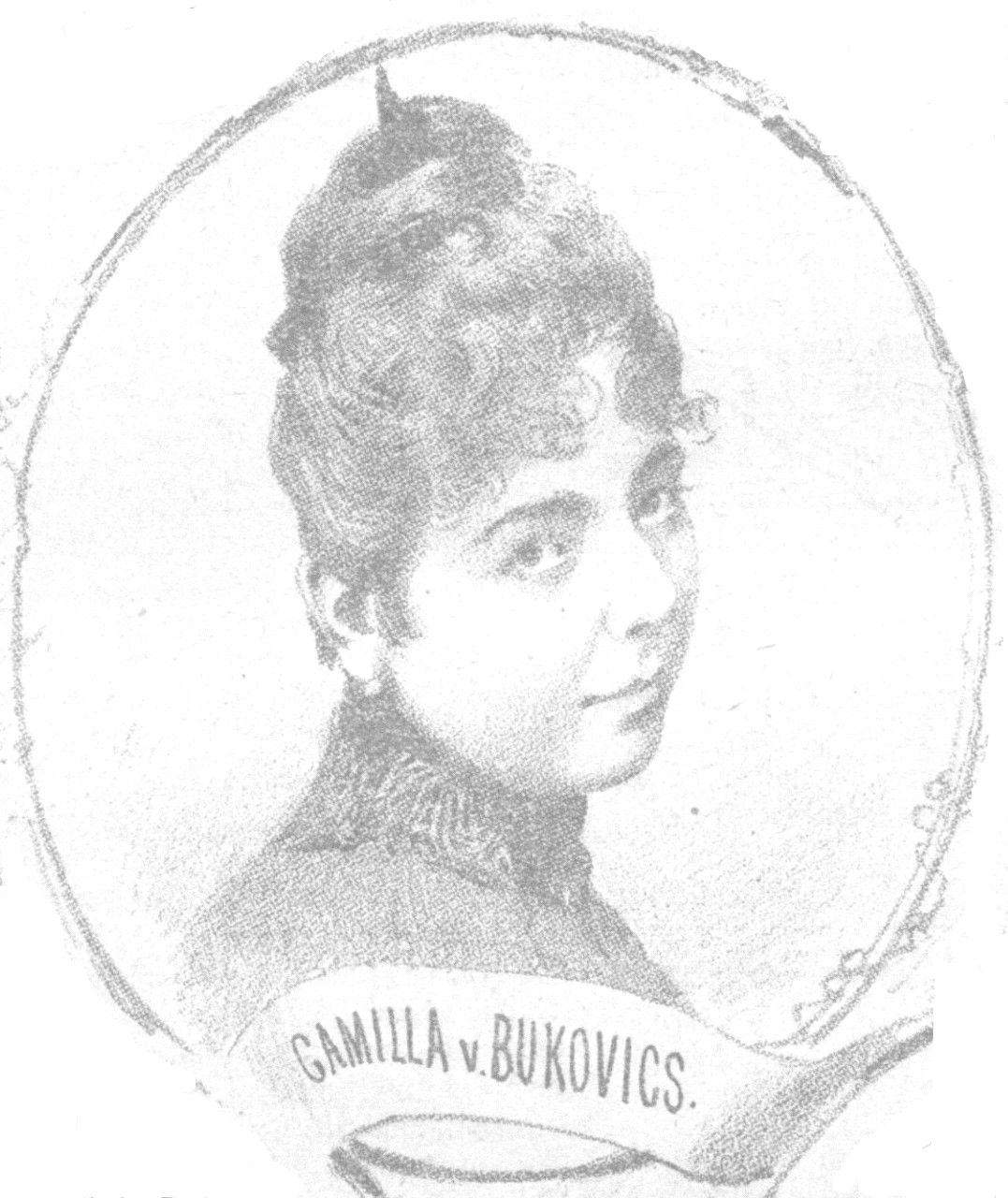 Portrait of Camilla von Bukovics (1869-1935), Austrian actress